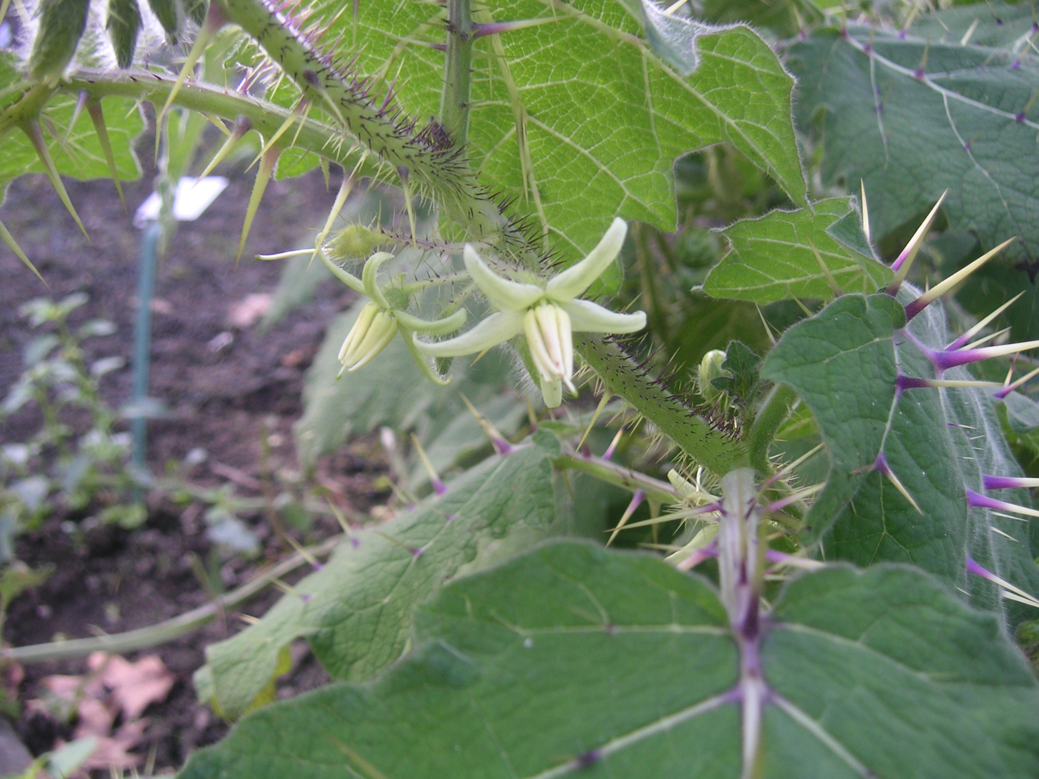 Flower of Solanum myriacanthum at Botanical Garden Krefeld, Germany.